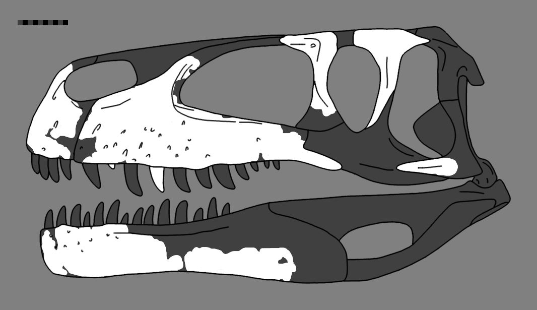 Reconstructed skull of Wiehenvenator albati based on holotype specimen (white). Scale bar is 10cm, image if 10px/cm. Unknown material based on related Torvosaurus tanneri. Cranial anatomy based on Rauhut et al (2016) "A new megalosaurid theropod dinosaur from the late Middle Jurassic (Callovian) of north-western Germany: implications for theropod evolution and faunal turnover in the Jurassic"